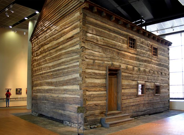 The exterior of the Slave Pen, the focal point of the National Underground Railroad Freedom Center in Cincinnati, Ohio. The building was originally located on a farm in Mason County, Kentucky.